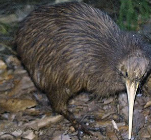 Photo of stuffed brown kiwi (Apteryx australis) from Auckland Museum, New Zealand.